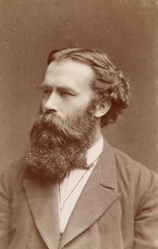 Sofus Arctander (1845-1924), Norwegian politician (Liberal Party), member of parliament, minister of the interior 1884–1885, minister of trade 1905–1907. Mayor of Kristiania. Photo by R. Ovesen in the collection of Oslo Museum via DigitaltMuseum.